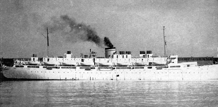 USAT George Washington Carver (U.S. Army Transport) Halftone reproduction of a photograph taken in 1946. Built in 1943 as the "Liberty" Ship George Washington Carver, this ship served as the Army Hospital Ship Dogwood from mid-1944 until early 1946. She then reverted to her original name for employment as a transport. Copied from the book "Troopships of World War II", by Roland W. Charles.